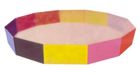 Ronald Davis, "Ring", 1968, 60 1/2 x 134", polyester resin and fiberglass; MoMA, NYC The artist was the uploader, the painting is in the collection of MoMA but RD has the copyright. I'm removing the tag. I have personally spoken with the artist. Modernist (talk) 00:35, 26 January 2008 (UTC)